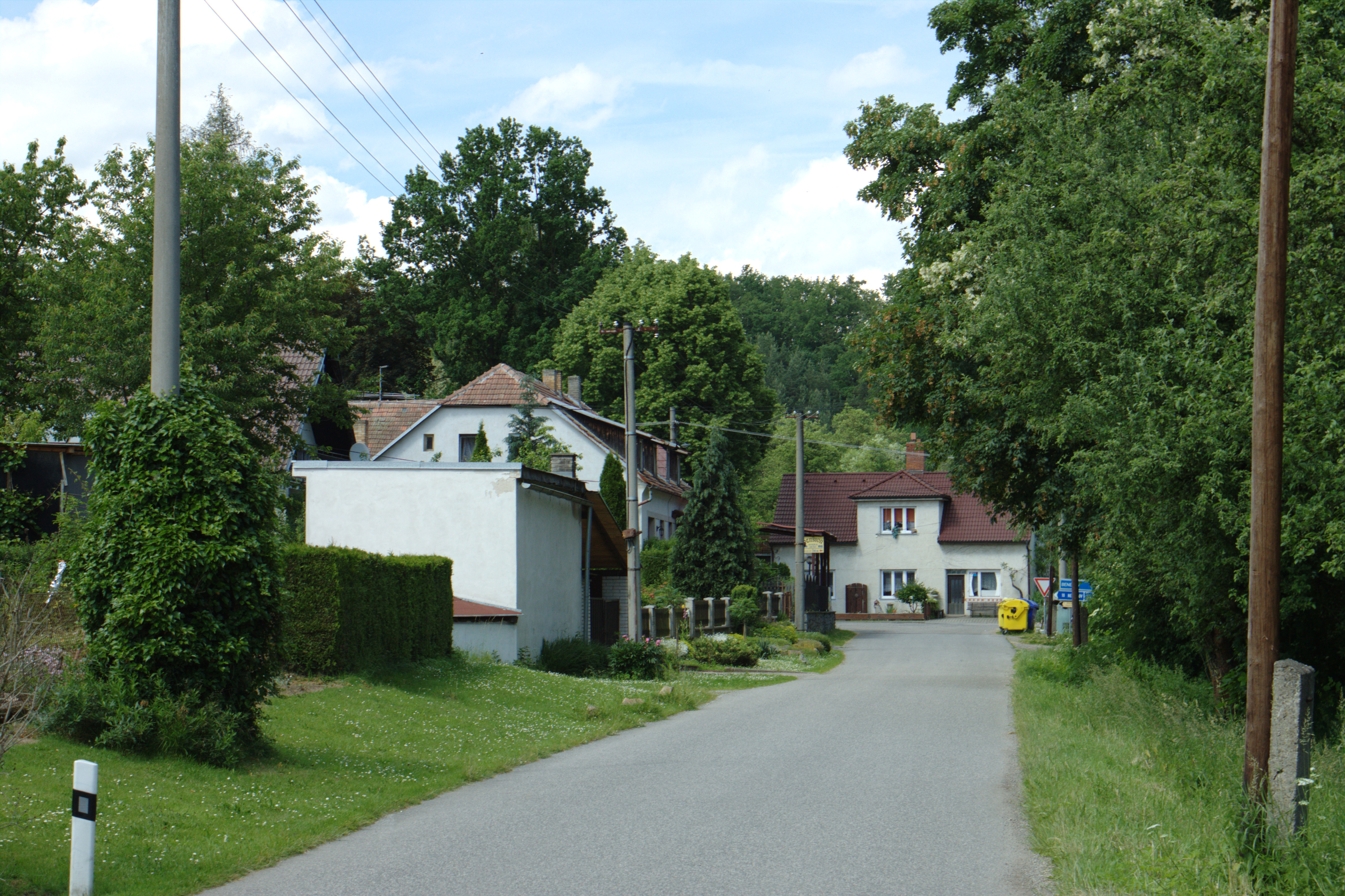 The village of Jarkovice, situated west from the town of Bystřice, Benešov District, CZ